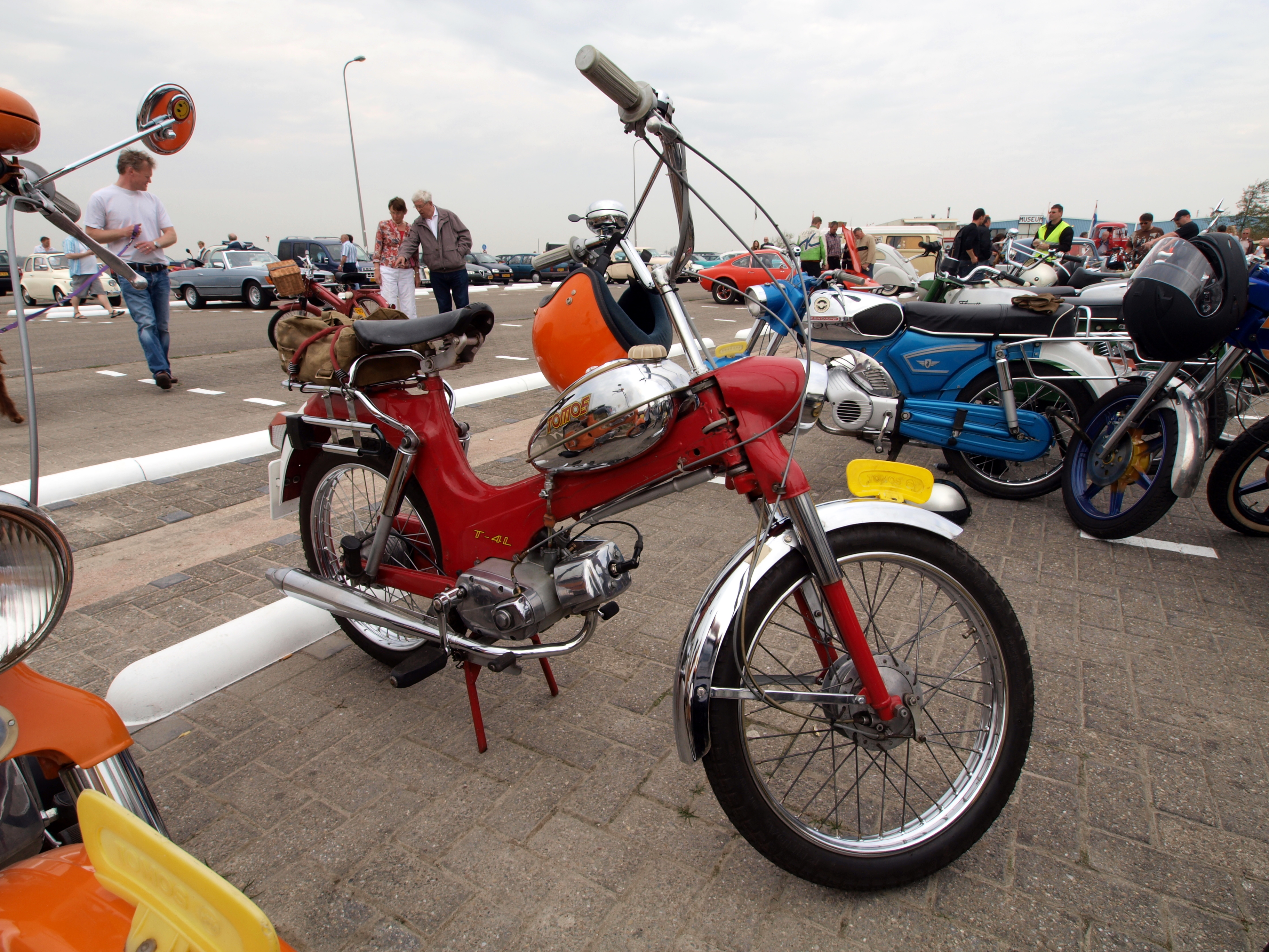 Photographed at Valkenburg, The Netherlands. OLYMPUS DIGITAL CAMERA